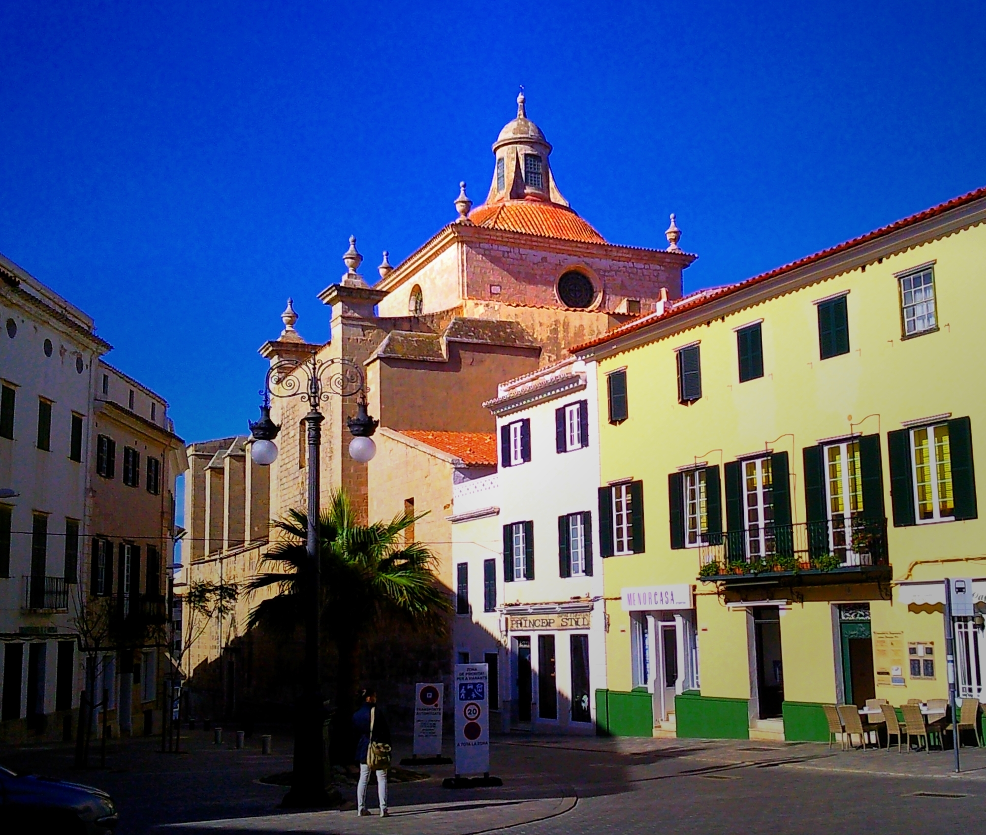 Mahon Minorca Plaça Princep to Mahon center